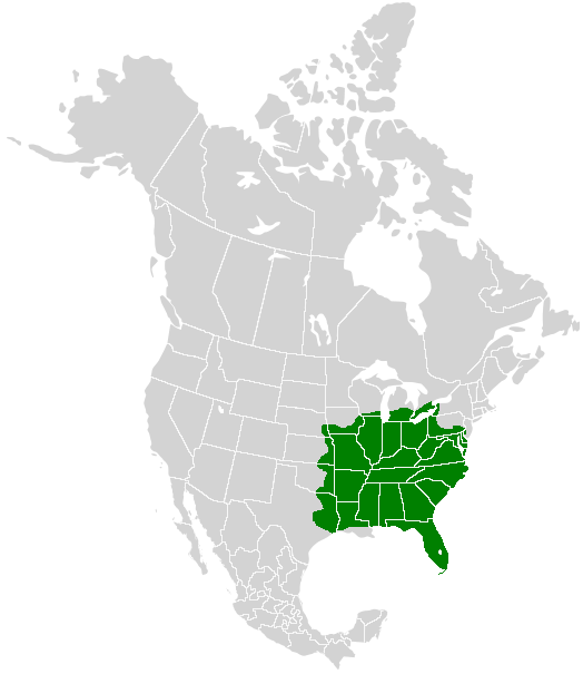 A range map showing the distribution of the Zebra Swallowtail (Eurytides marcellus).